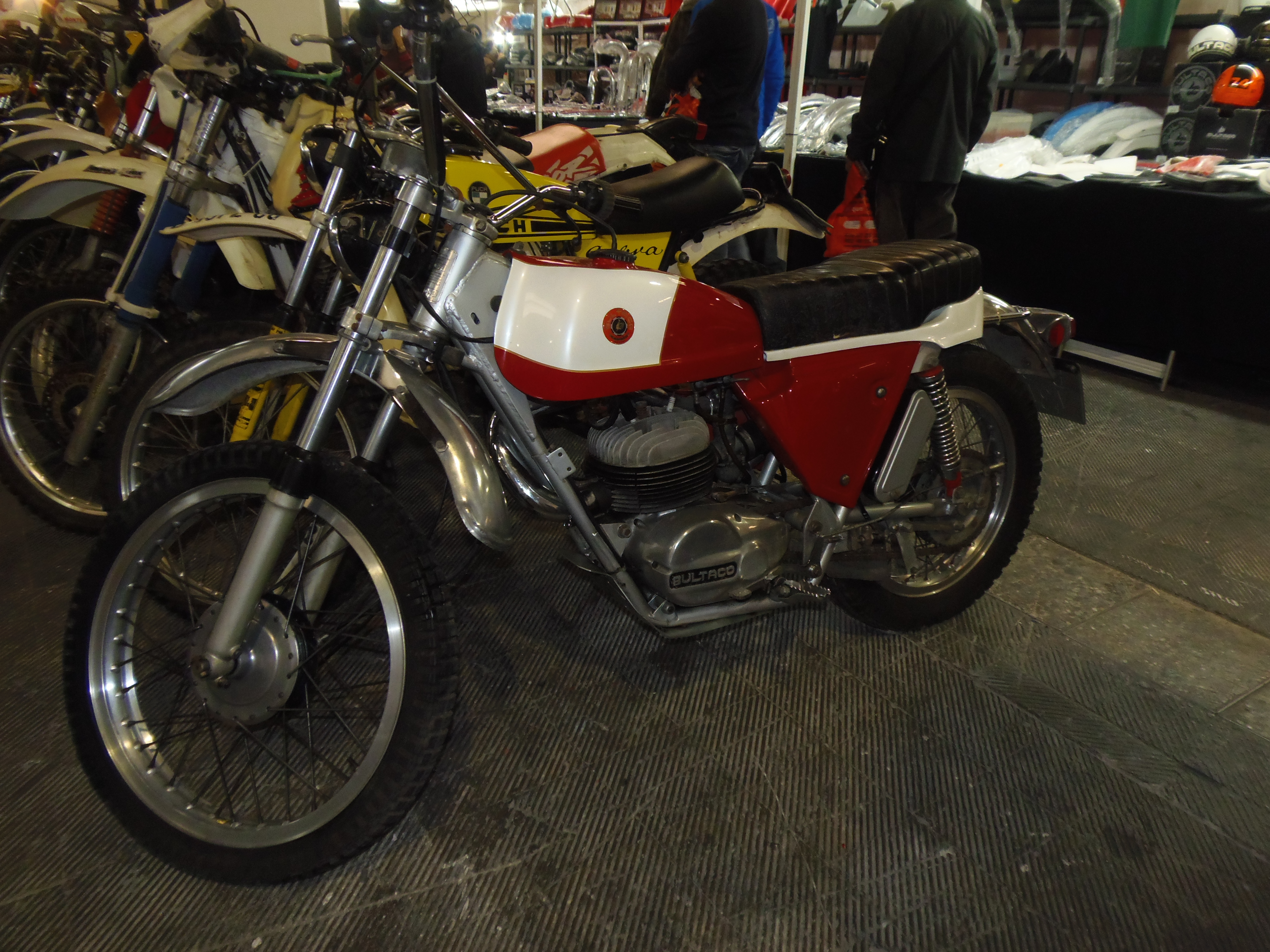 Bultaco El Montadero Mk3 (Mod. 81), 1971